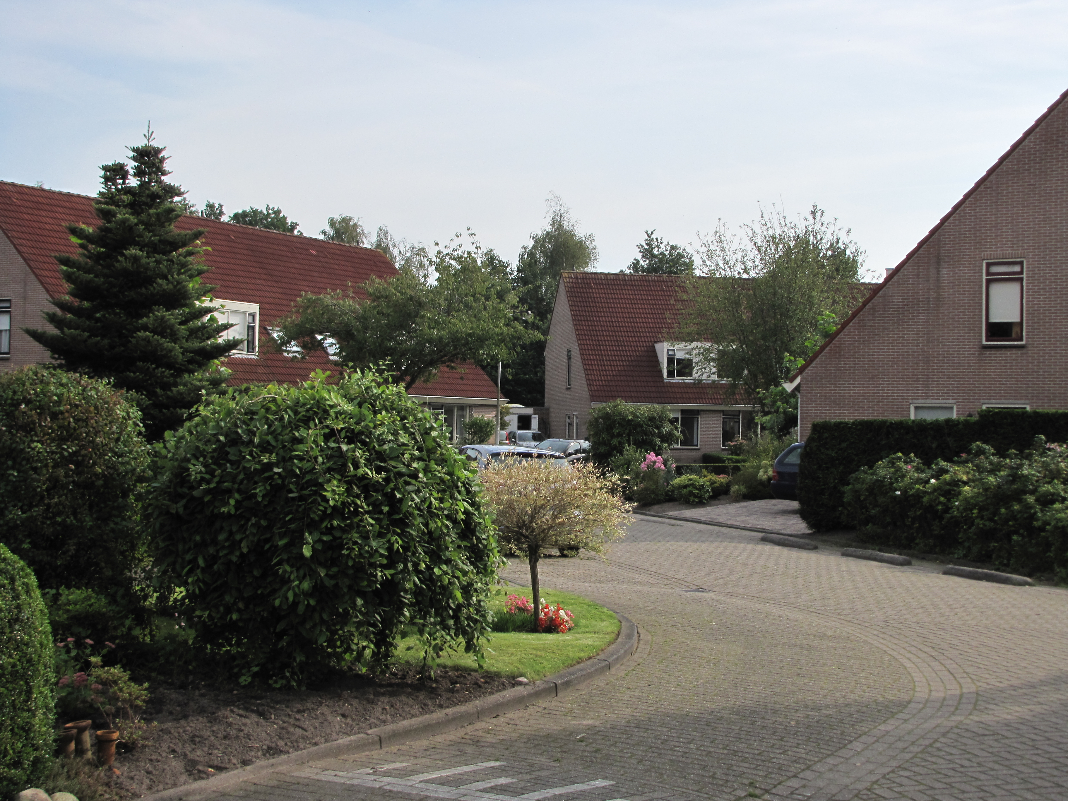 Town of Joure, Westermeer, street of Oksewei